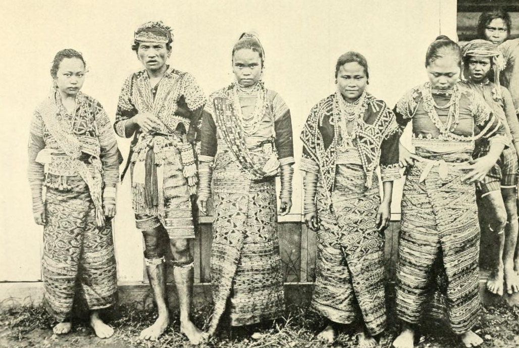 Bagobos, Davao, Mindanao (1913)